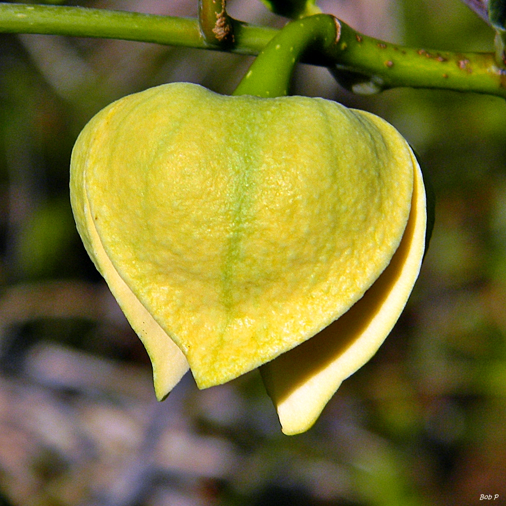 The blossom of a small pond apple tree growing on the edge of a depression marsh at Sweetbay Natural Area. The fruit of the pond apple are edible (don't eat the seeds) but not usually very tasty. The leaves are insecticidal. Seeds, leaves & bark are poisonous and contain a wide range of chemicals. Eat The Weeds website warns not to handle the seeds and then touch the eyes (the seeds can cause blindness) and that the leaves are used to kill lice in hens' nests and to poison fish! The pond apple also has a variety of medicinal uses and research is exploring their anticancer properties. This tree is a beloved native of Florida but it's a serious invasive pest in Australia.